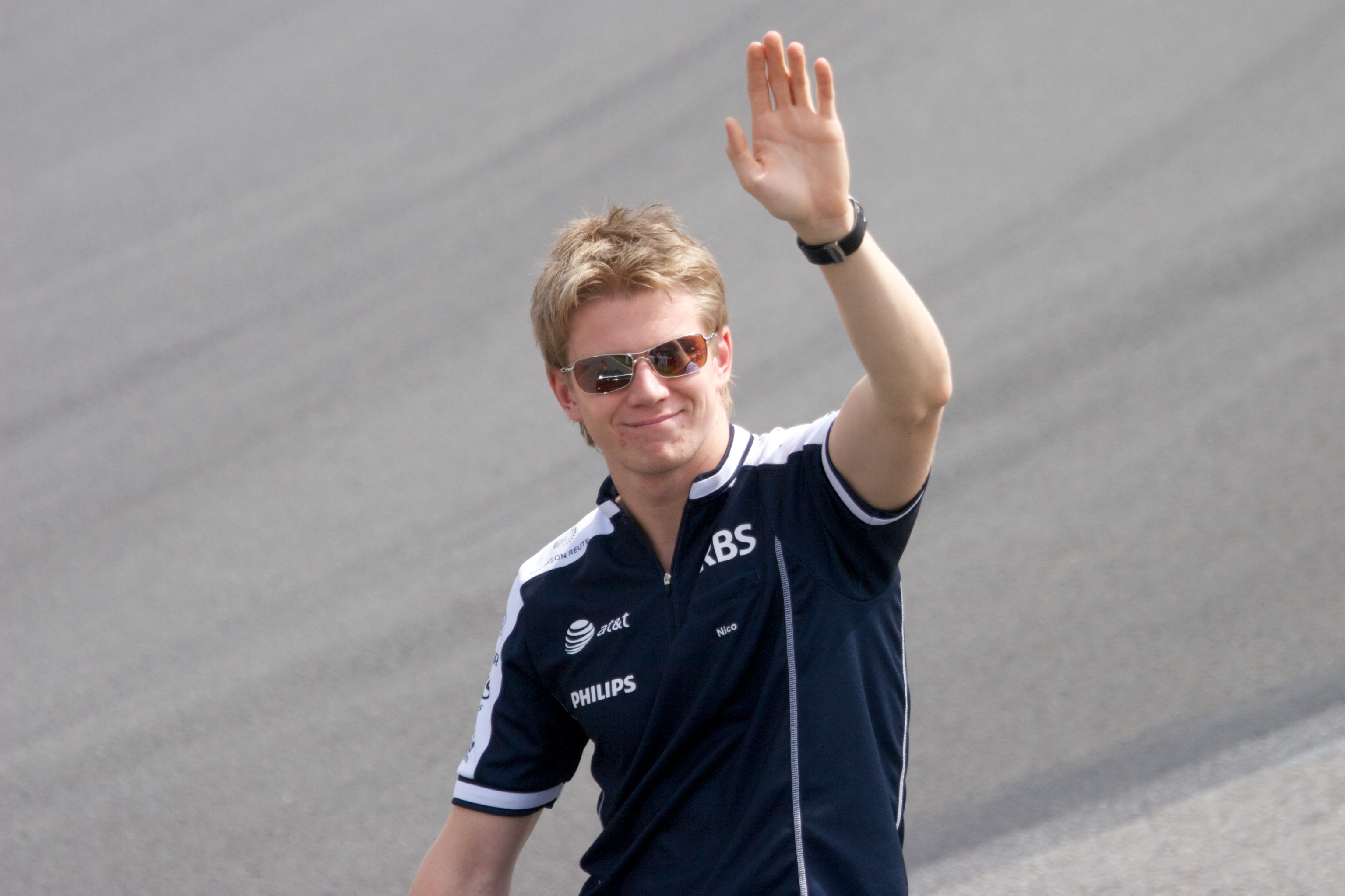 Nico Hulkenberg at the 2010 Canadian Grand Prix drivers parade.